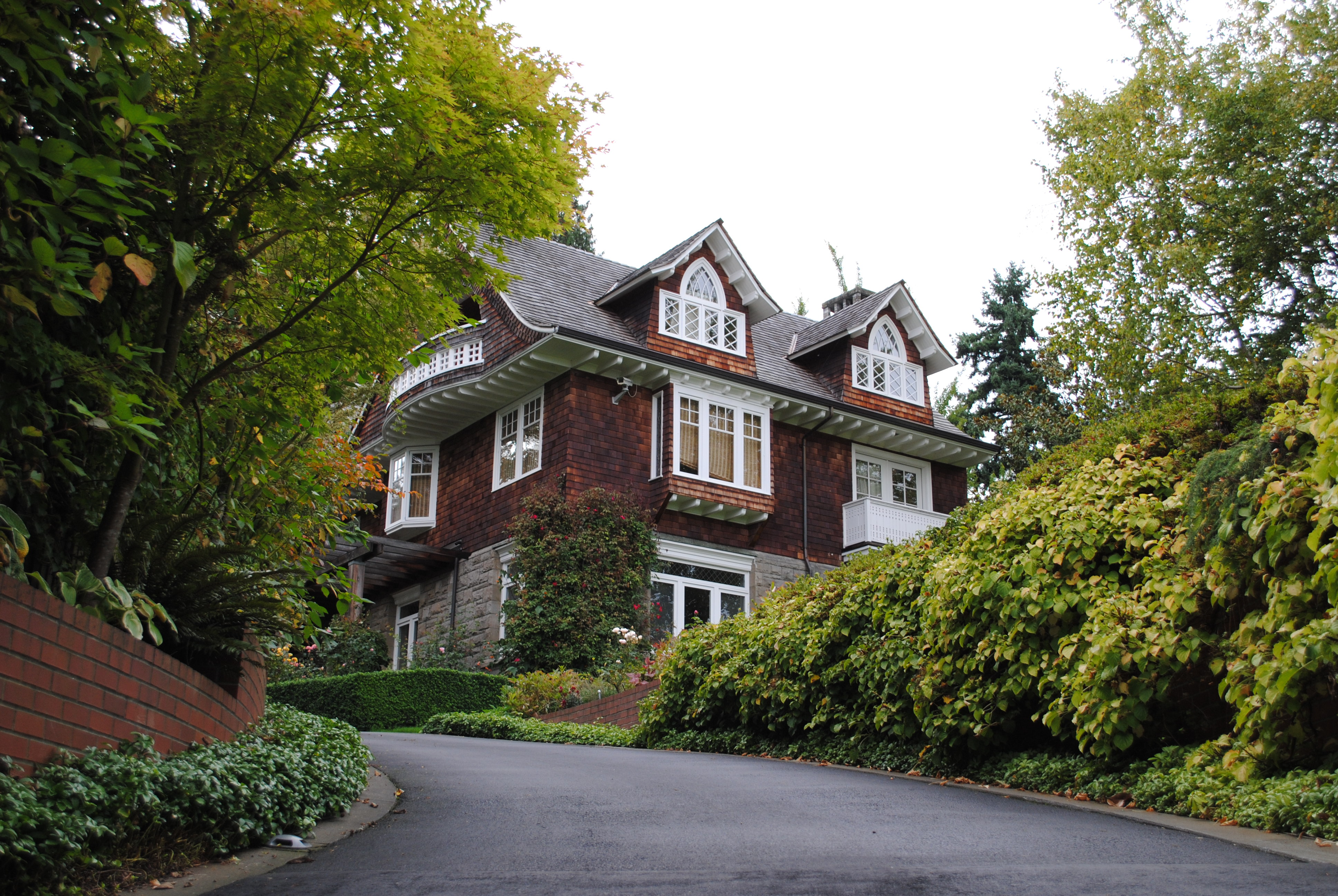 171 Lake Washington Boulevard, Seattle, WA